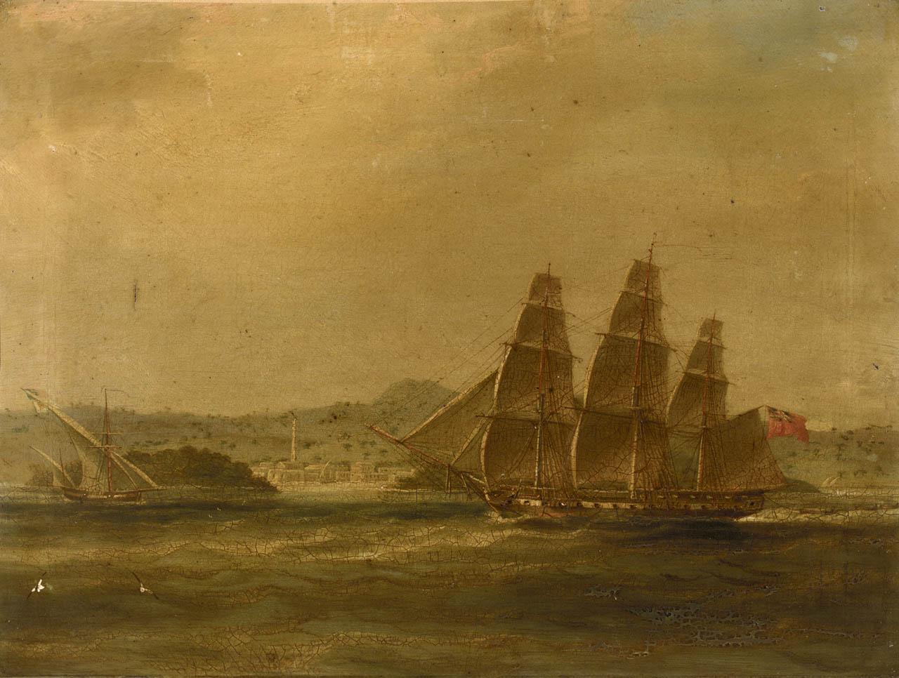 HMS Mercury takes La Pugliese in Barletta, 7 September 1809 'HMS Mercury takes La Pugliese in Barletta, 7 September 1809', by William John Huggins. One of a pair commemorating actions in the Adriatic by the frigate Mercury , 28 guns, under Captain the Hon. Henry Duncan: the other is BHC0589. HMS 'Mercury' takes 'La Pugliese' in Barletta, 7 September 1809